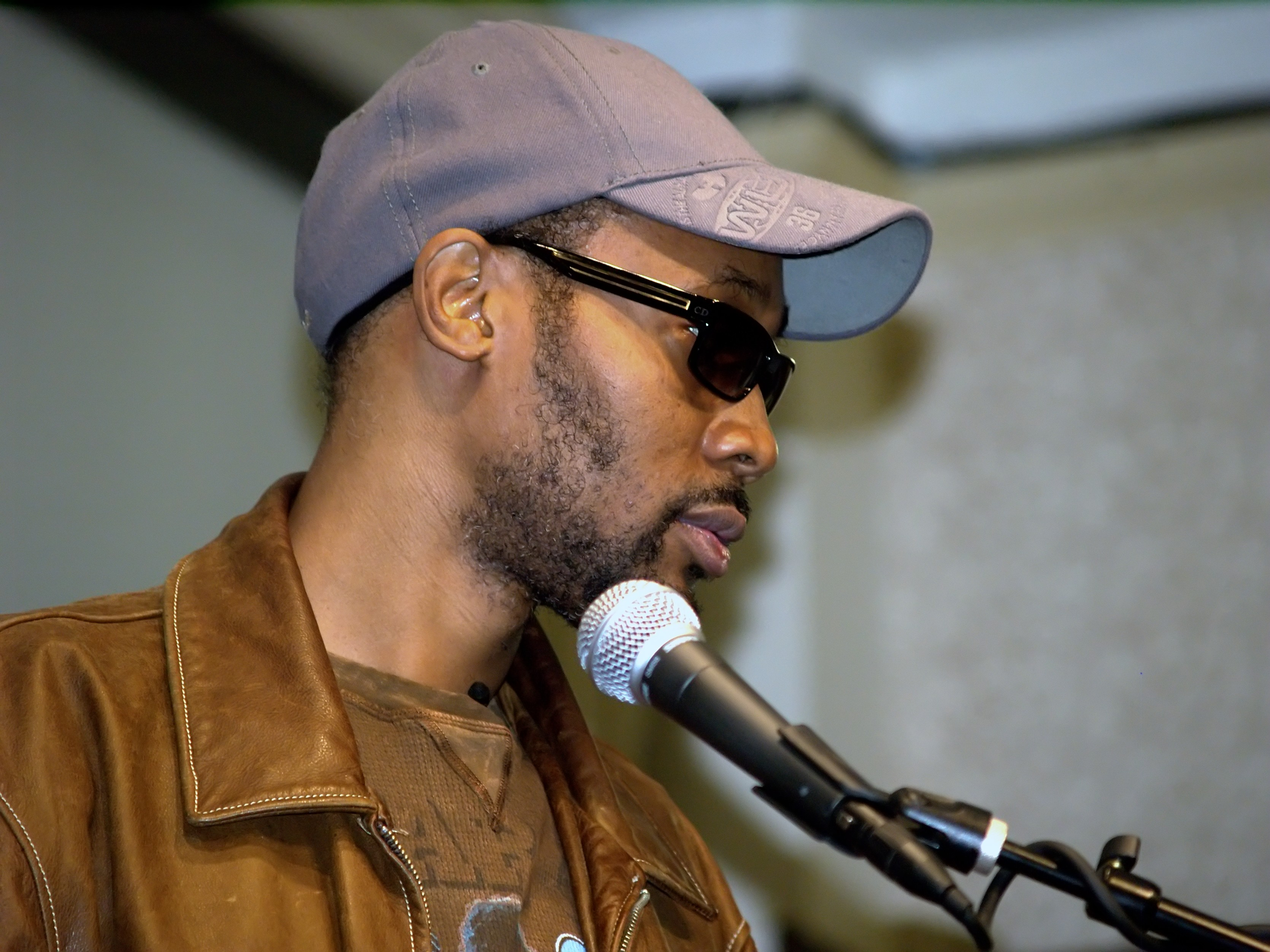 Wu Tang Clan co-founder RZA in New York City's Union Square Barnes & Noble to read from The Tao of Wu, a book about the philosophy behind the Wu Tang Clan.